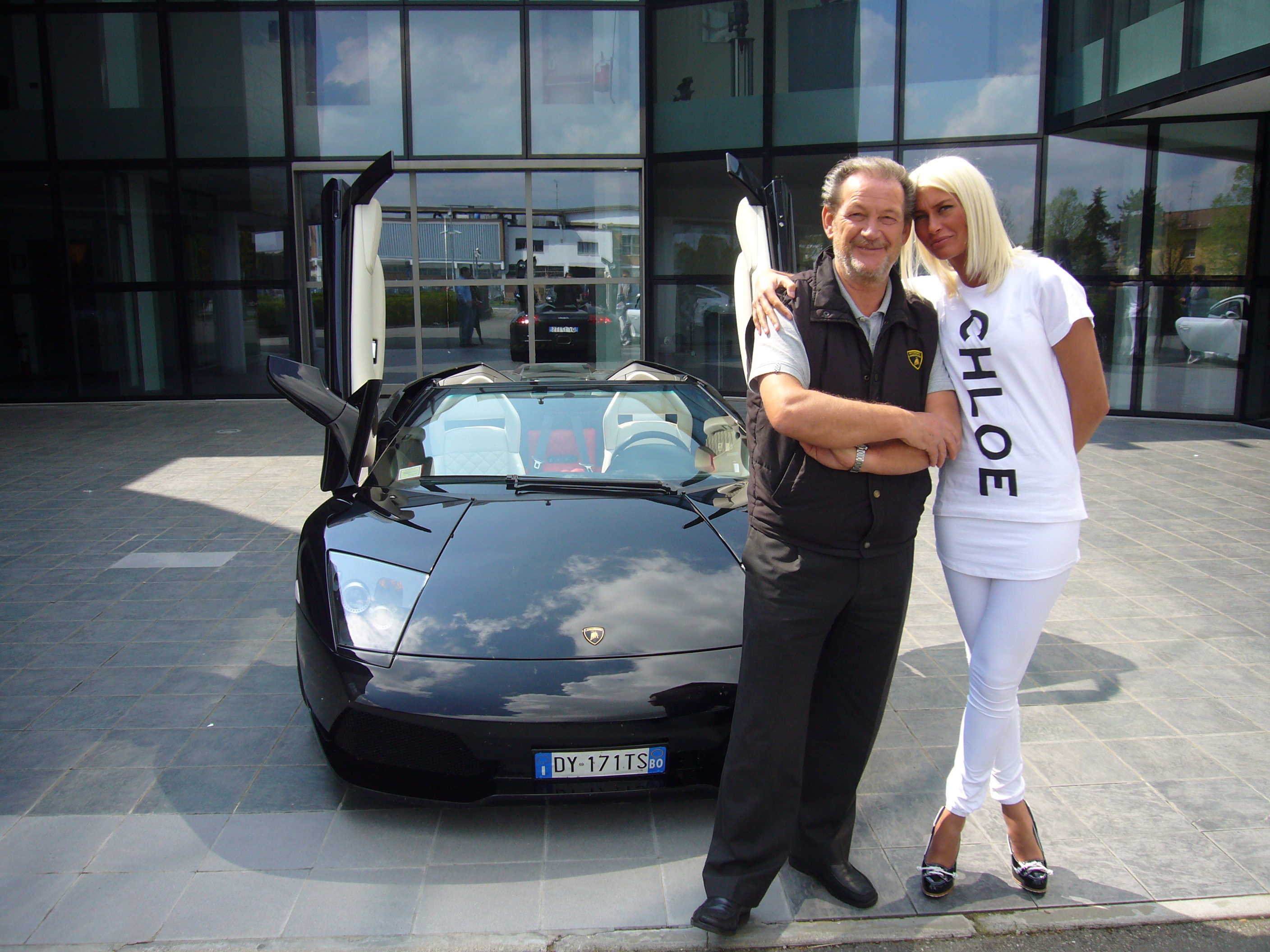 and Valentino Balboni in front of the Lamborghini Museum in Sant'Agata Bolognese